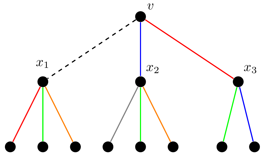 Illustrates the a fan in the Misra and Gries edge coloring algorithm